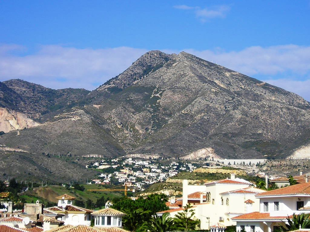 Mount Calamorro, Benalmádena, Málaga, Spain. View from Torrequebrada neighbourhood.